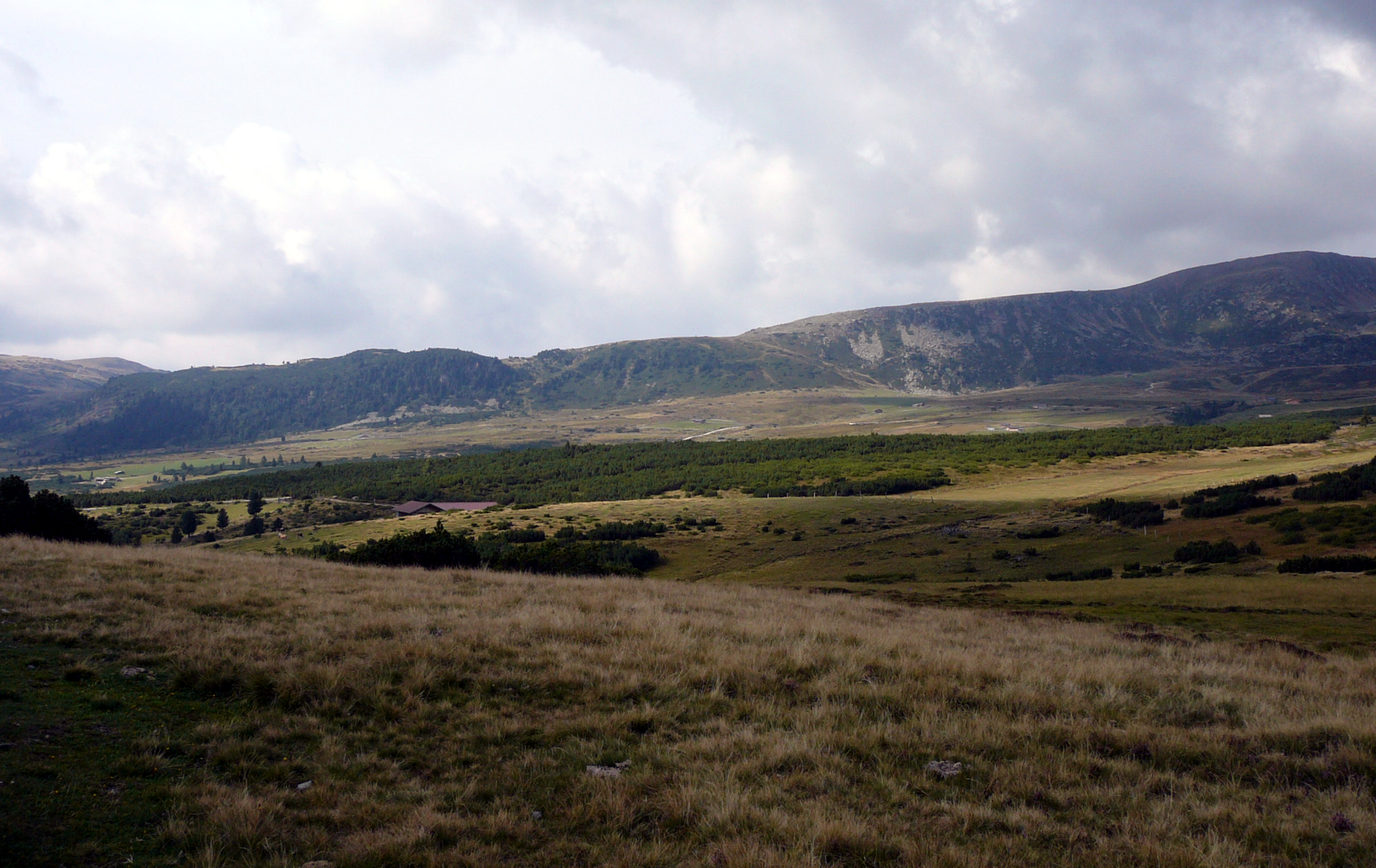 Alpe di Villandro